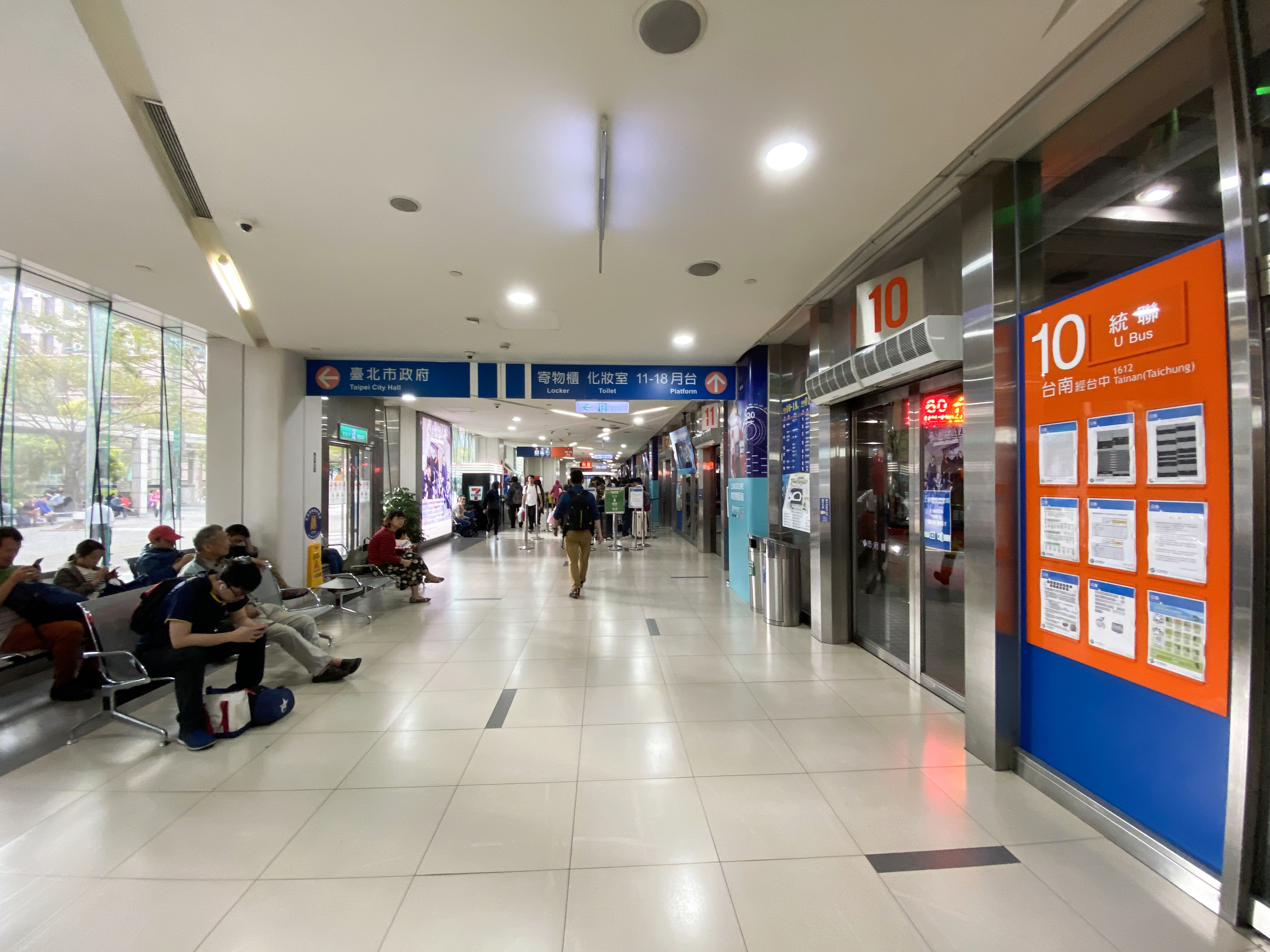 Taipei City Hall Bus Station waiting area